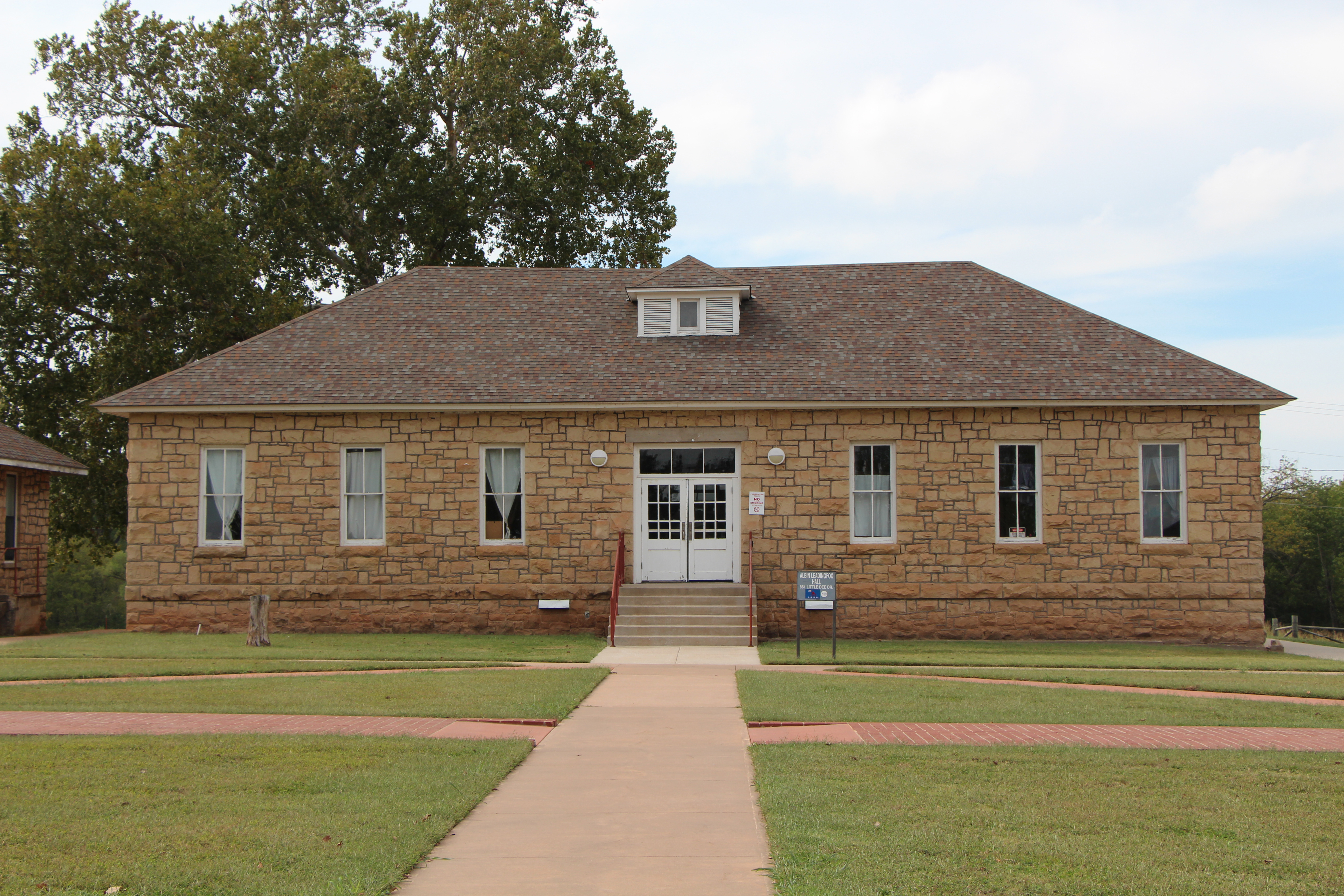 1913 School House